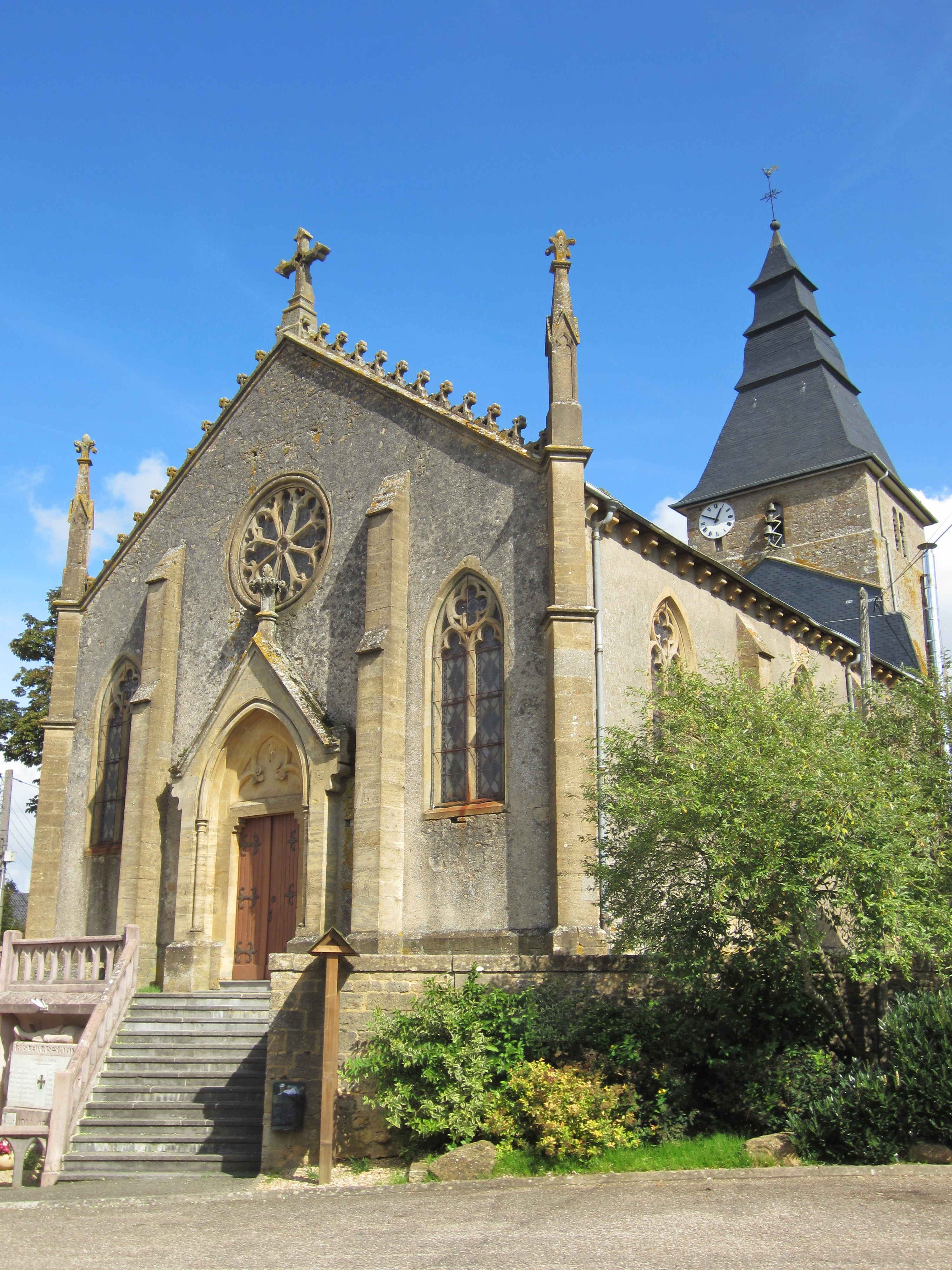 Description eglise Baslieux Date23 September 2011Sourcemon appareil photoAuthorAimelaimePermission (Reusing this file) eglise Baslieux